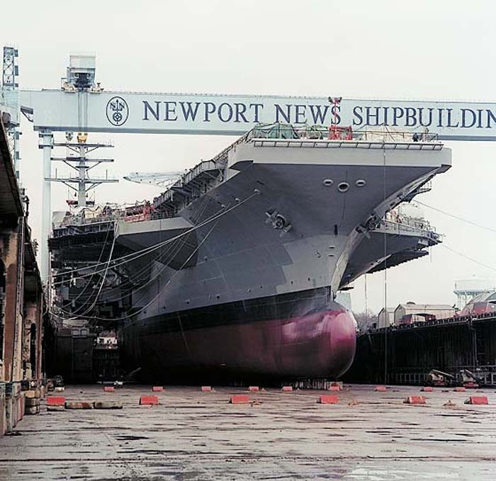 The USS Ronald Reagan in drydock before launching. Taken from [1] [2] and uploaded to help illustrate bulbous bow.